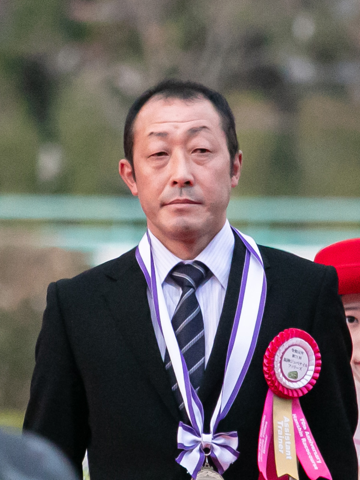 Koichi Uchida, ex-Jockey of JRA.